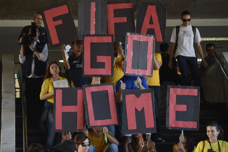 Members of the Cup Popular Committee protest with crosses next to Mané Garrincha National Stadium, as a hommage to nine people who died at work in the Cup stadiums.